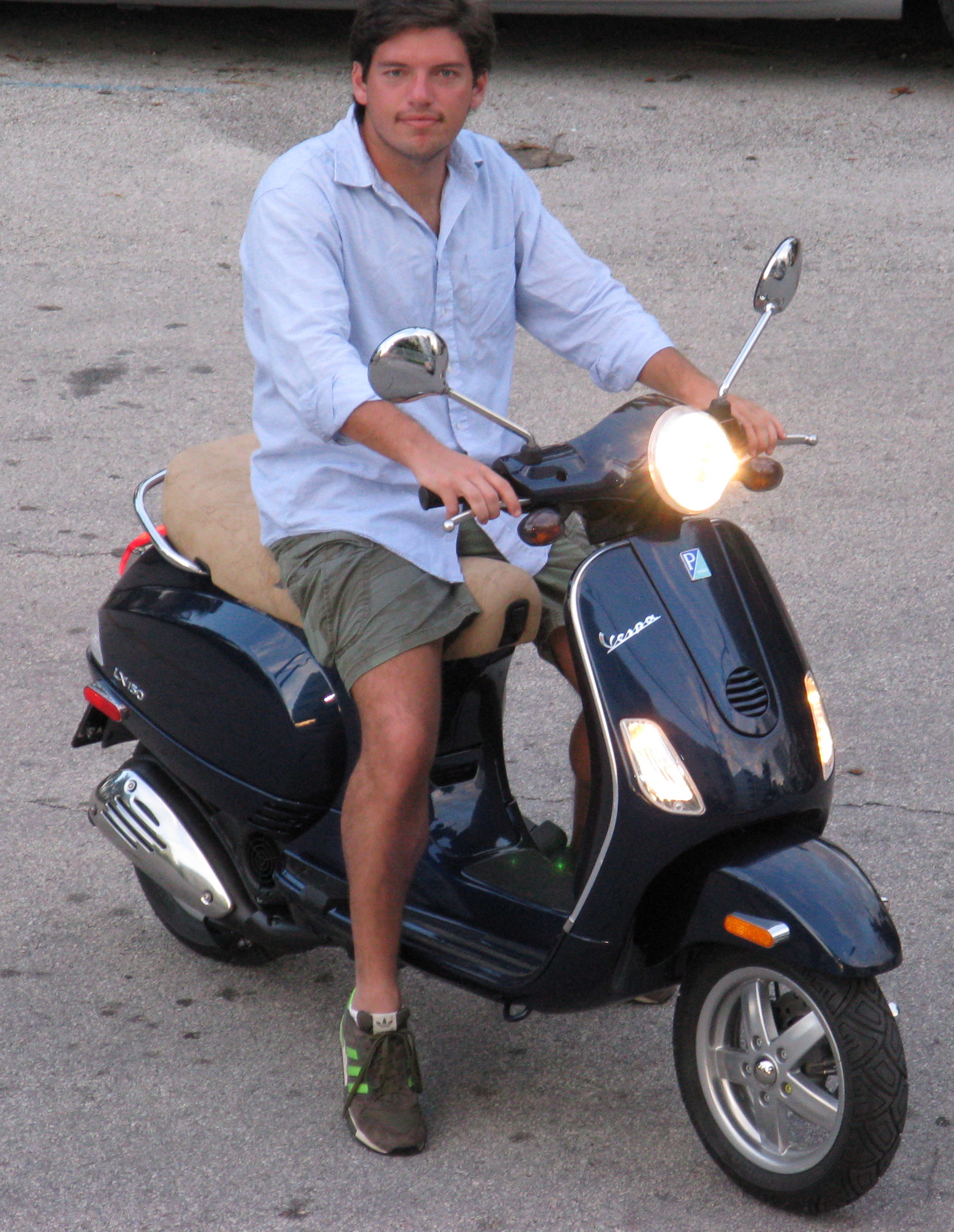 Man on a 2008 Vespa LX 150.